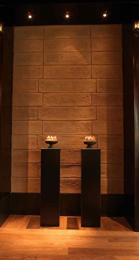 Hutong Bricks Wall Paneling found in The PuLi Hotel and Spa